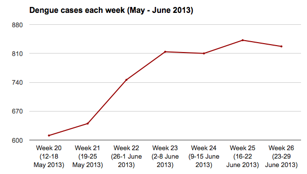 A graph showing the total number of dengue cases in Singapore from May to June 2013 (each week).